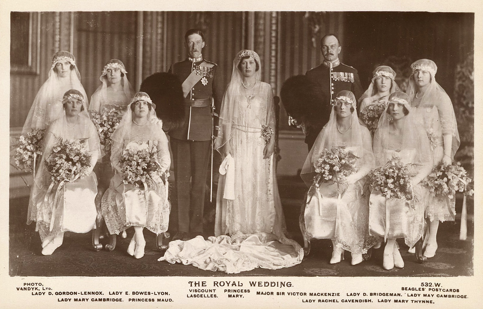 Beagles' postcard of Princess Mary (bride center) and Viscount Lascelles (groom centre left) with their bestman and their bridesmaids. Back row left to right: Lady Doris Gordon-Lennox, Lady Elizabeth Bowes-Lyon, Viscount Lascelles, Princess Mary, Major Sir Victor Mackenzie, Lady Diana Bridgeman, Lady May Cambridge. Seated left to right: Lady Mary Cambridge, Princess Maud, Lady Rachel Cavendish, Lady Mary Thynne.